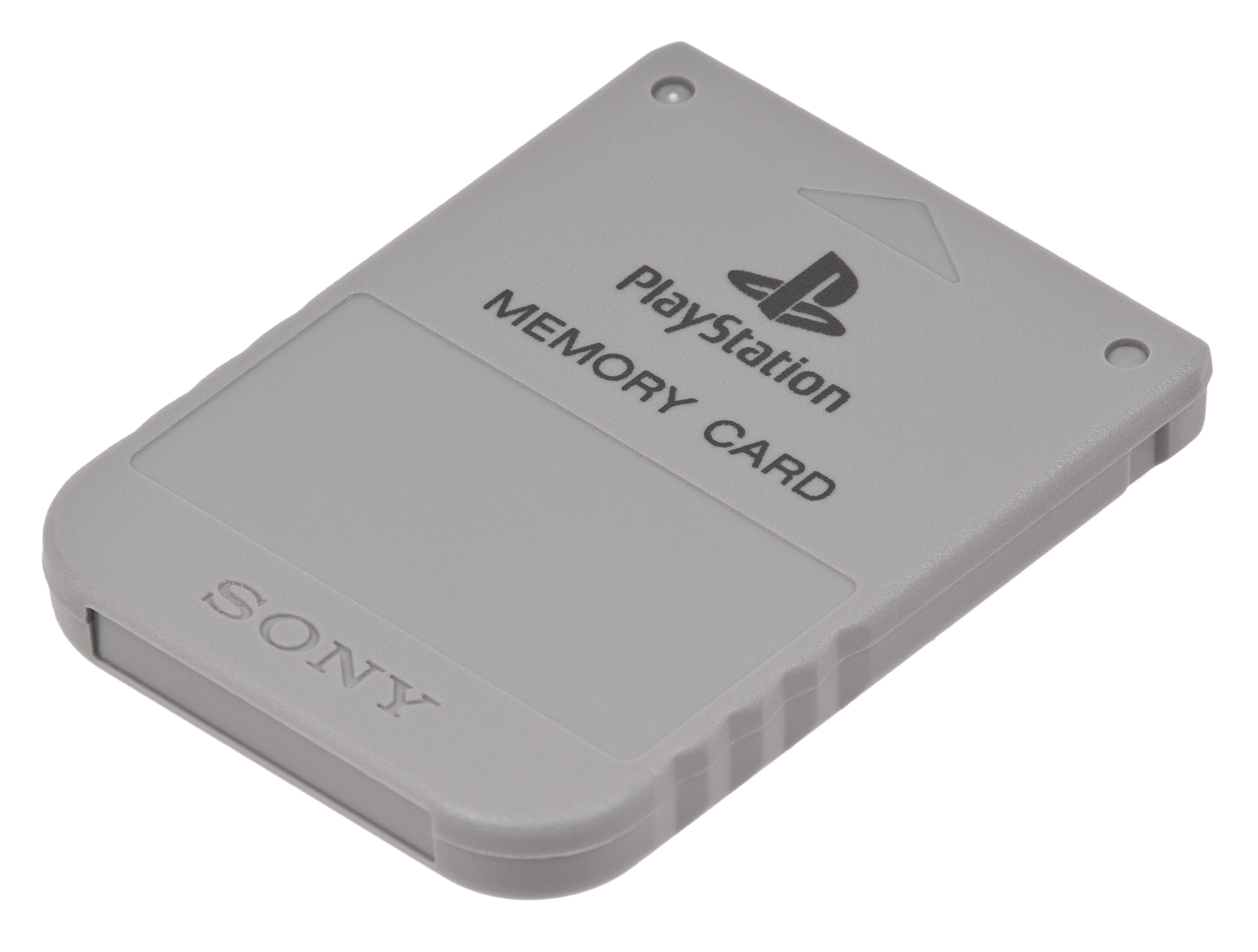 An original, first-party memory card for the PlayStation console made by Sony.